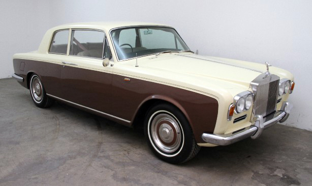 The front left 3/4 view of a 1967 Rolls-Royce Silver Shadow James Young Coupé. Only 35 (plus 15 Bentleys) James Young Coupés were built in 1966 and 1967.